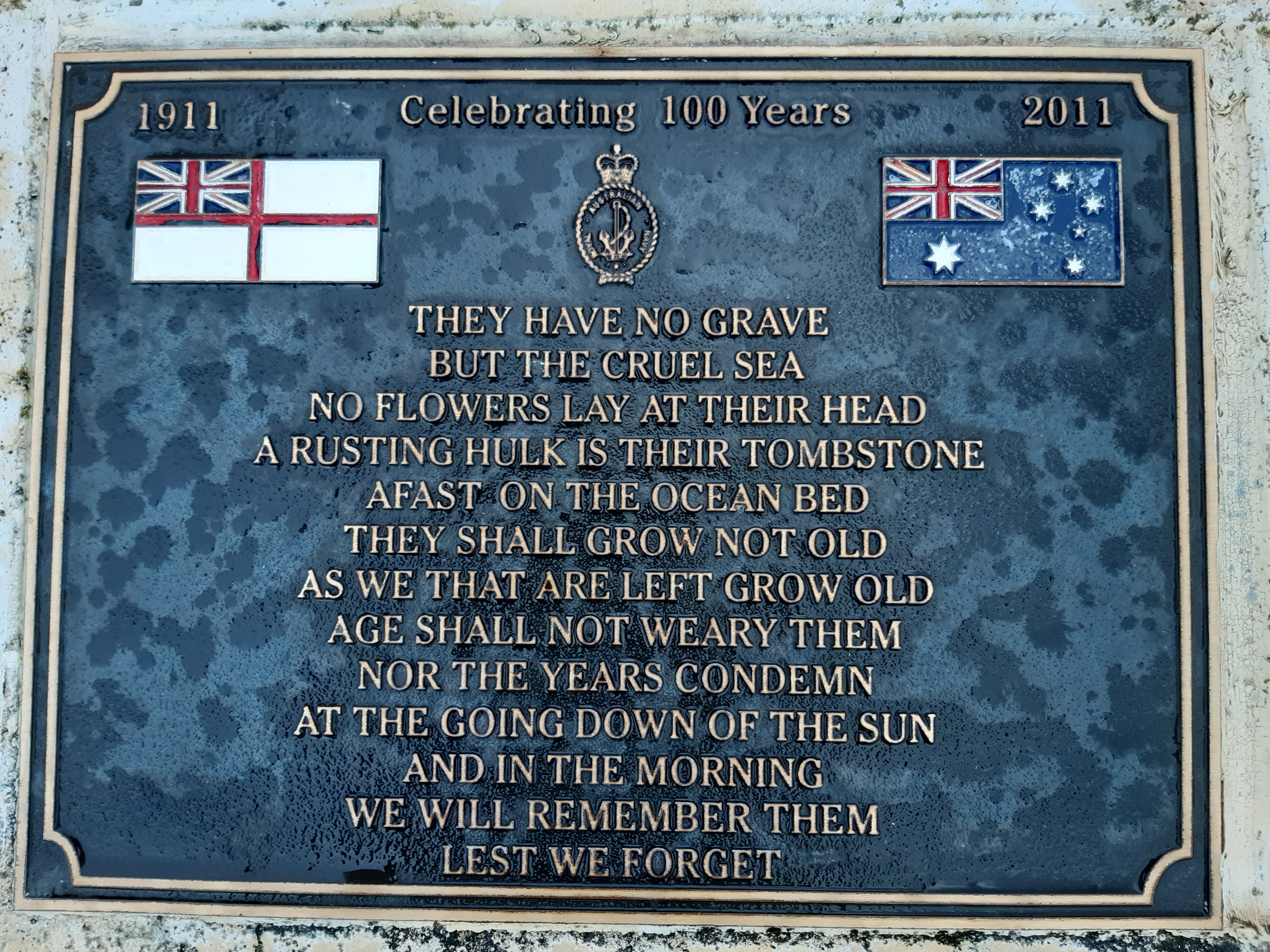 Rockingham Naval Memorial Park, Western Australia: Commemorative plaque for 100 Years of the Royal Australian Navy.